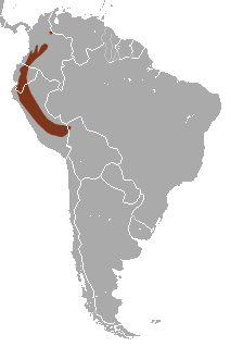 Andean Slender Mouse Opossum (Marmosops impavidus) range